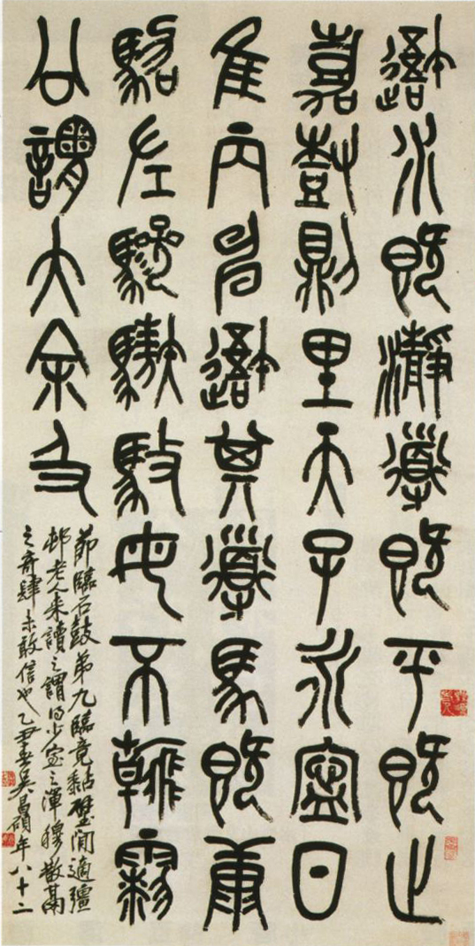 Calligraphy of Old character written in stone like hand drum,paper scroll,臨石鼓文